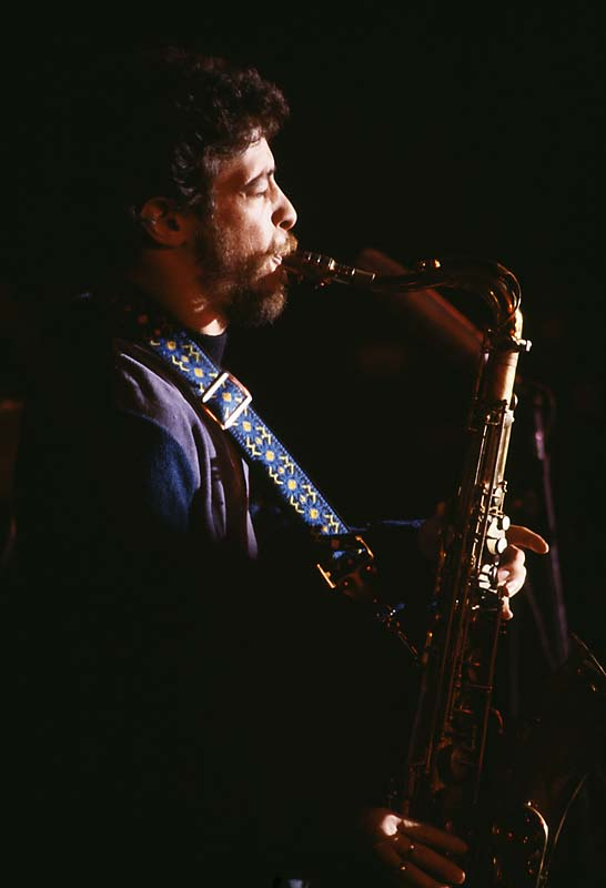 David Schnitter, playing tenor saxophone in The Jazz Messengers, at Umeå Jazz Festival.